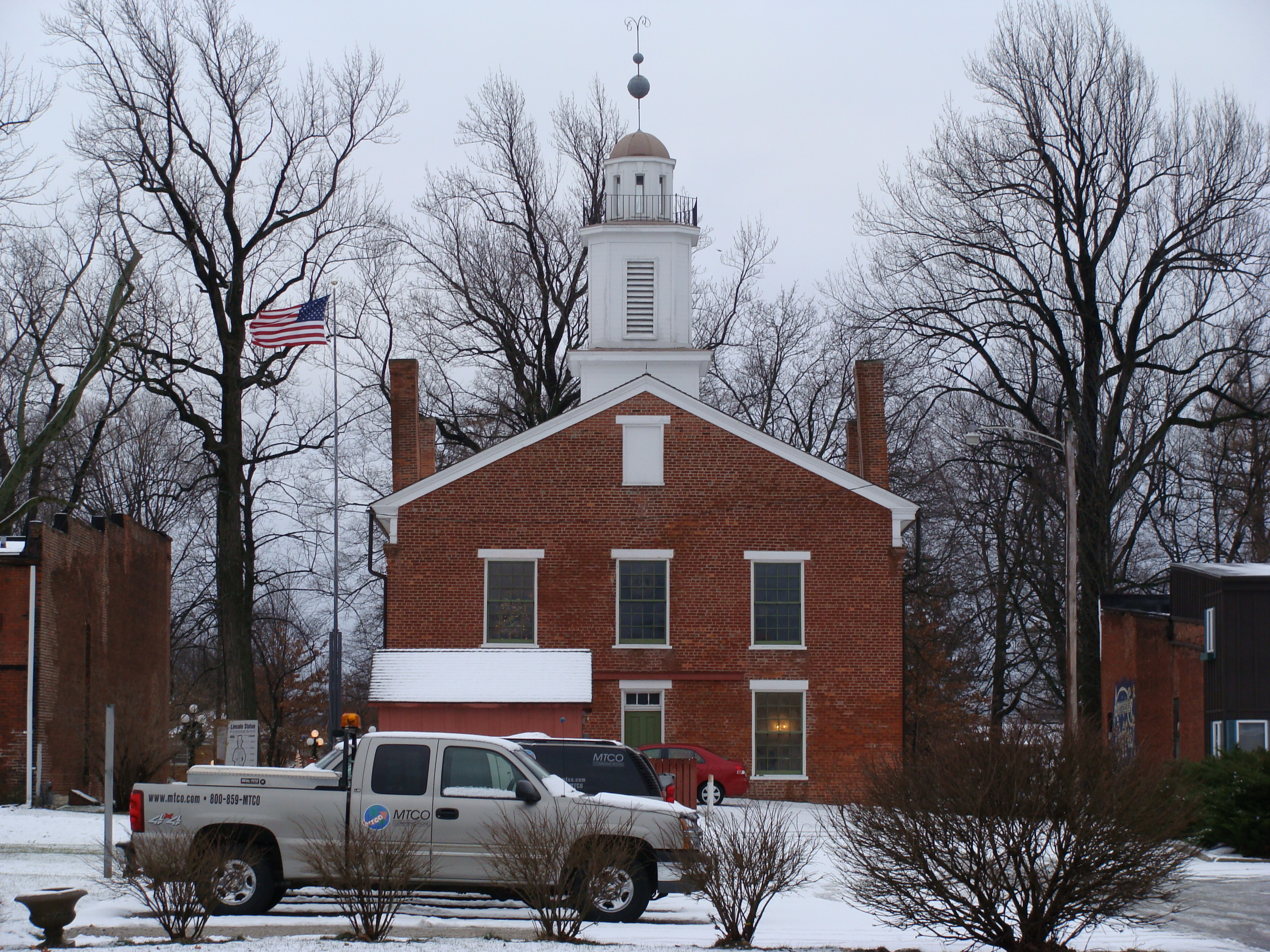 Rear of Metamora Courthouse State Historic Site seen from East Chatham Street in Metamora, Illinois, USA. In the foreground, the parking lot and utility trucks for Metamora Telephone Company (MTCO).